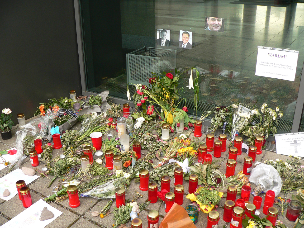 Kondolenzablage vor dem Kreishaus Hameln für den am 26. April 2013 im Gebäude getöteten Landrat Rüdiger Butte